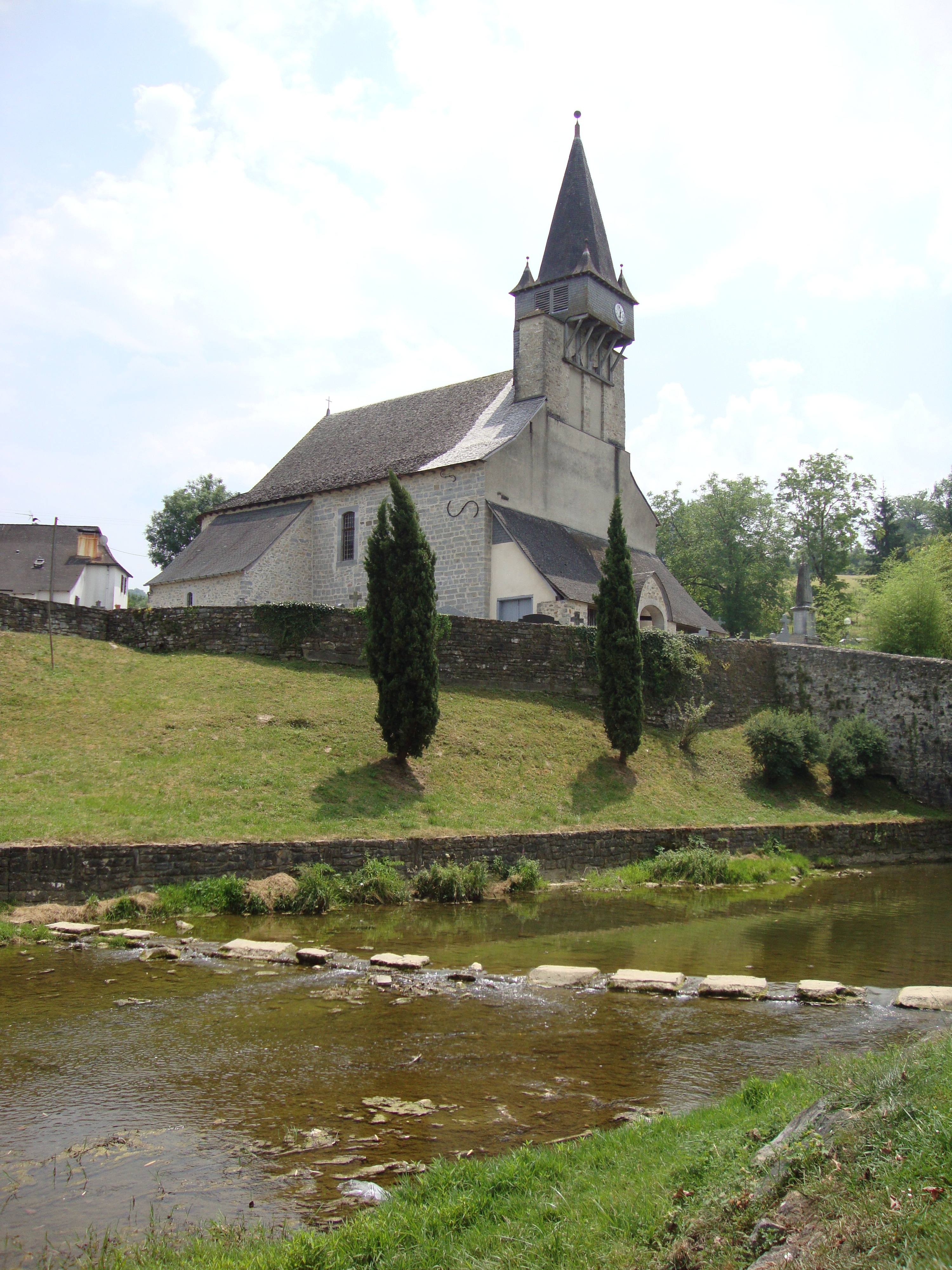 Ordiarp_(Pyr-Atl,_Fr) church and one of the fords over the Arangorena